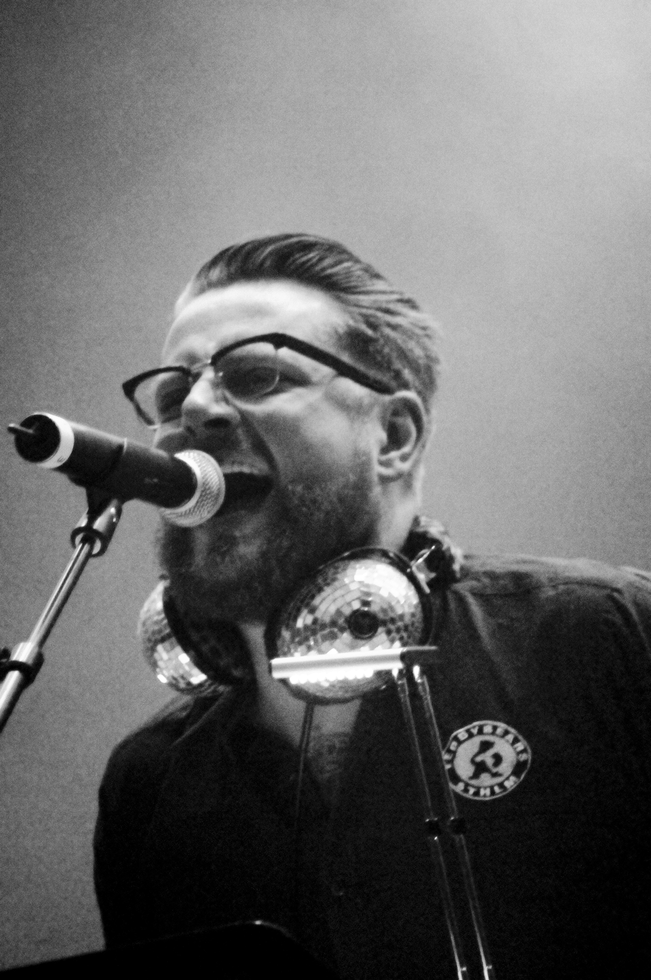 Patrik Arve live with Teddybears.